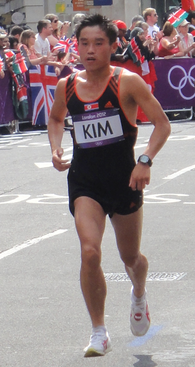 Kwang-Hyok Kim (North Korea) & Jean Pierre Mvuyekure (Rwanda) - London 2012 Men's Marathon